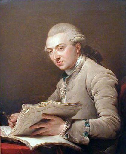 Portrait of Pierre Rousseau (1751-1829), French architect